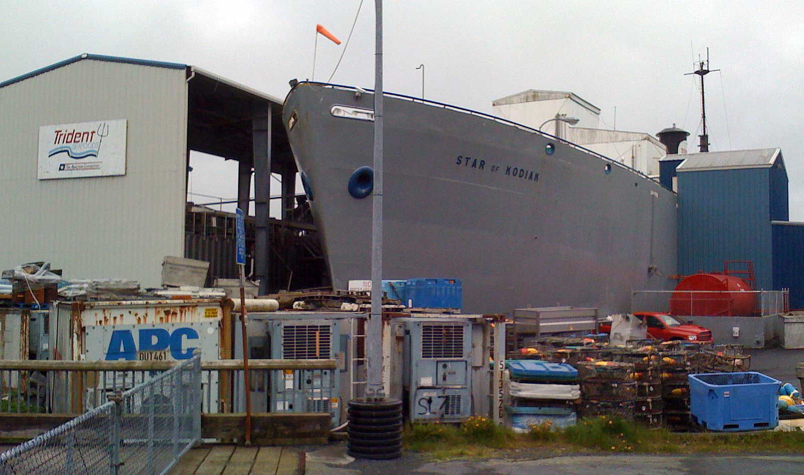 Cannery dock